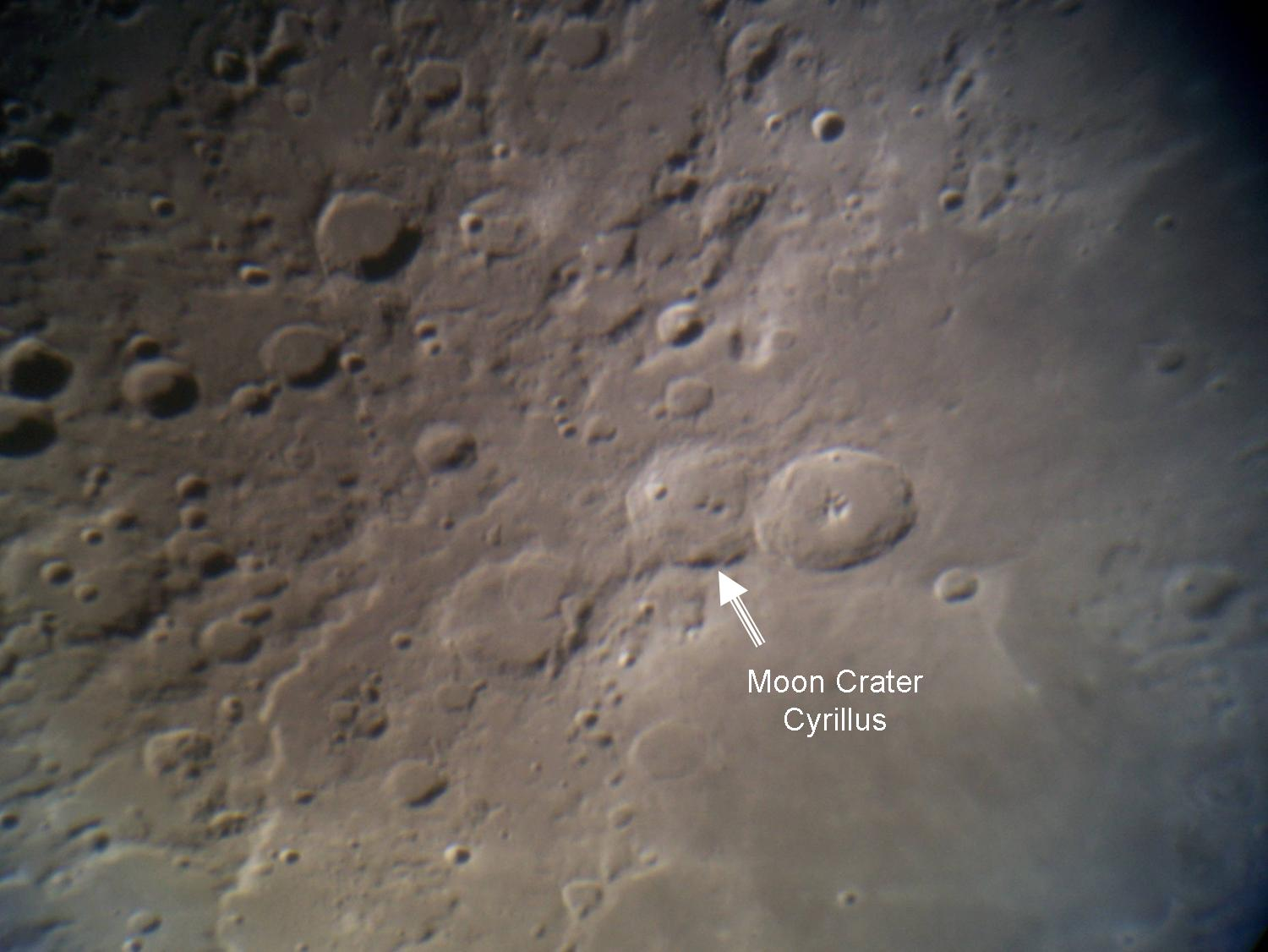 Photo taken by Eric S. Kounce at the McDonald Observatory on October 28, 2006 using the 36-inch Telescope